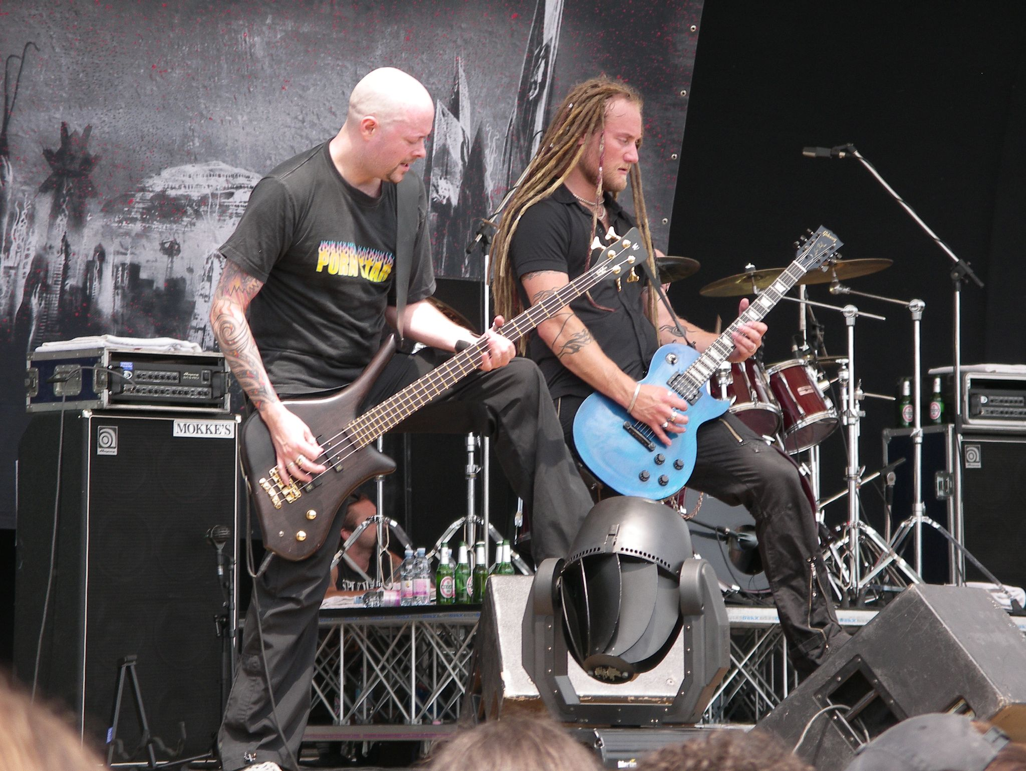 Dark Tranquillity @ Evolution Fest 2005